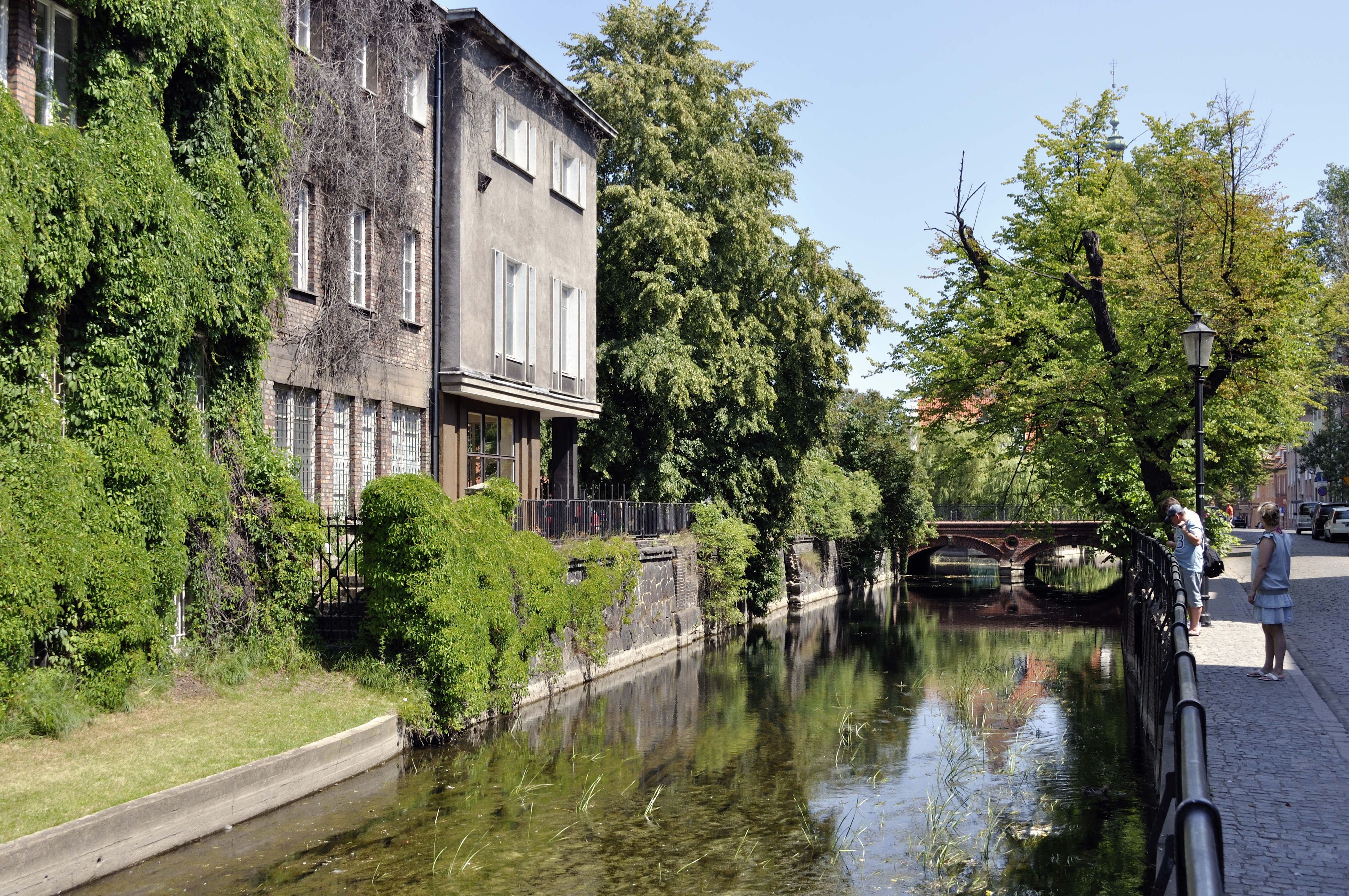 Picture taken in Gdańsk after Wikimania 2010 conference.